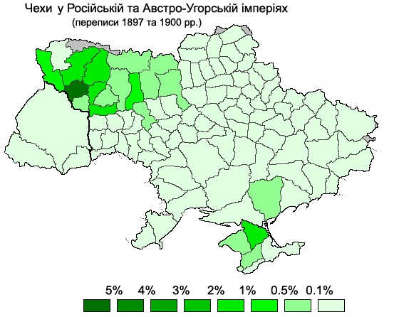 Czechs in ukrainian parts of Russian and Austro-Hungarian empires, 1897 and 1900 censuses